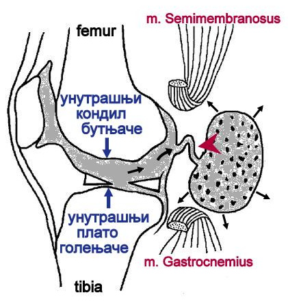 Valvular mechanism of Baker cyst